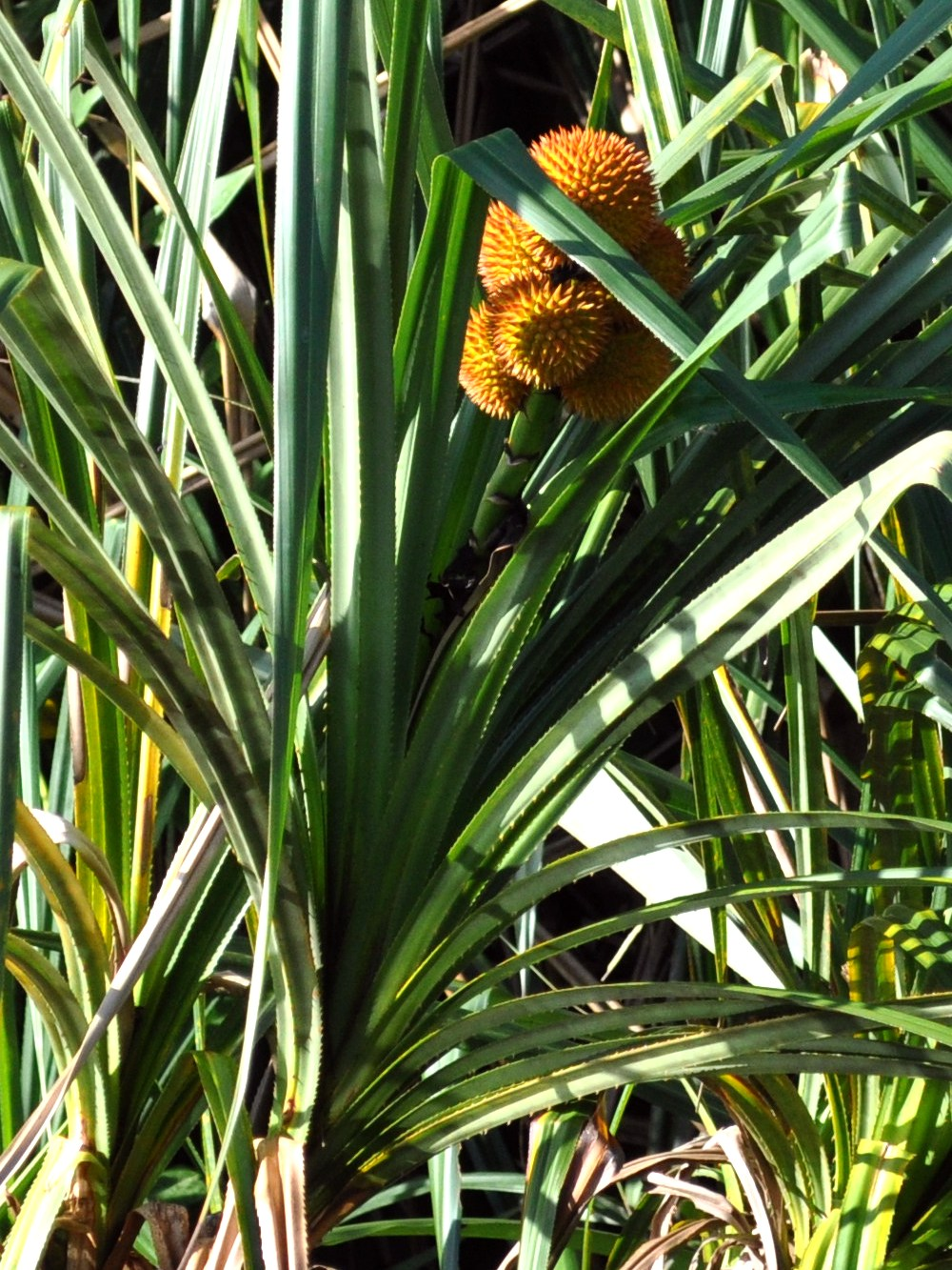 Benstonea affinis, fruiting plants, at the riverbank of Tempapan River, West Kalimantan, Indonesia.